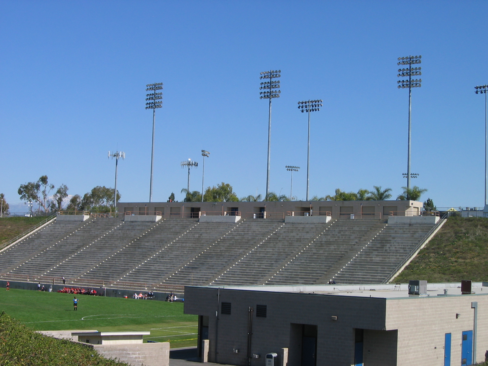 Titan Stadium, Spring 2007